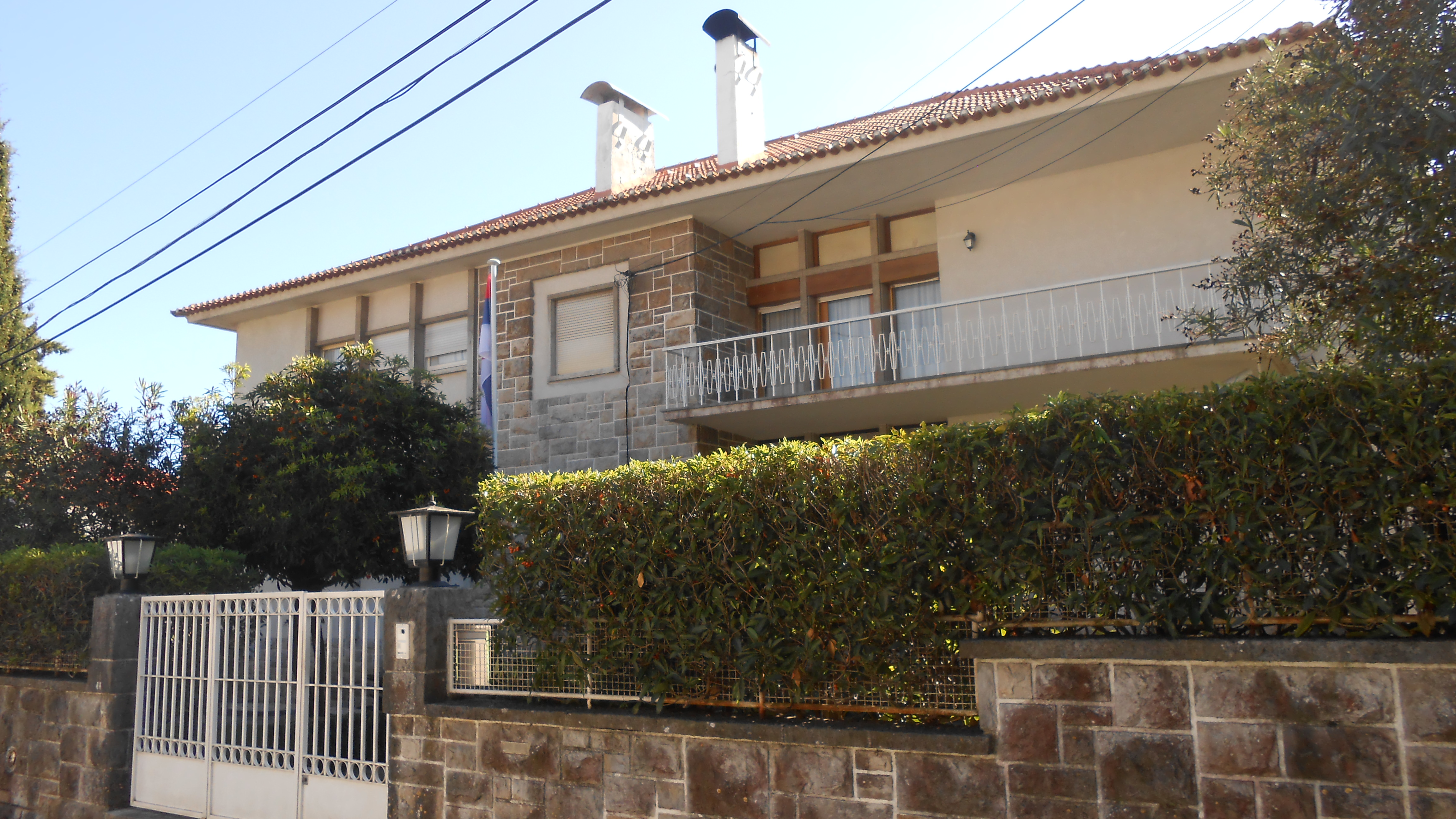 The embassy of Serbia in Belém, a neighbourhood in Lisbon.